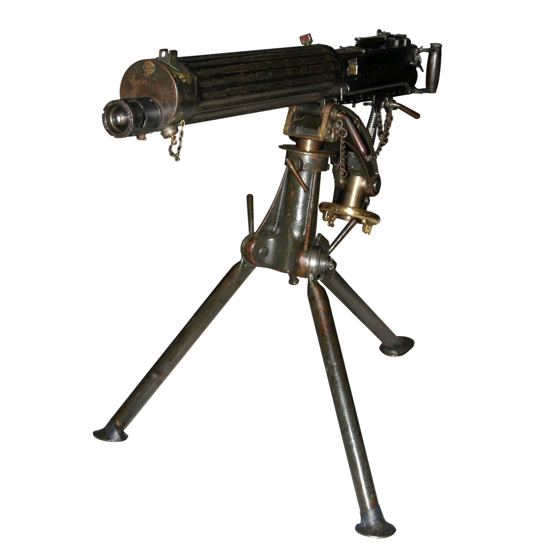 This image was taken at the Musée de l'Armée, Paris.